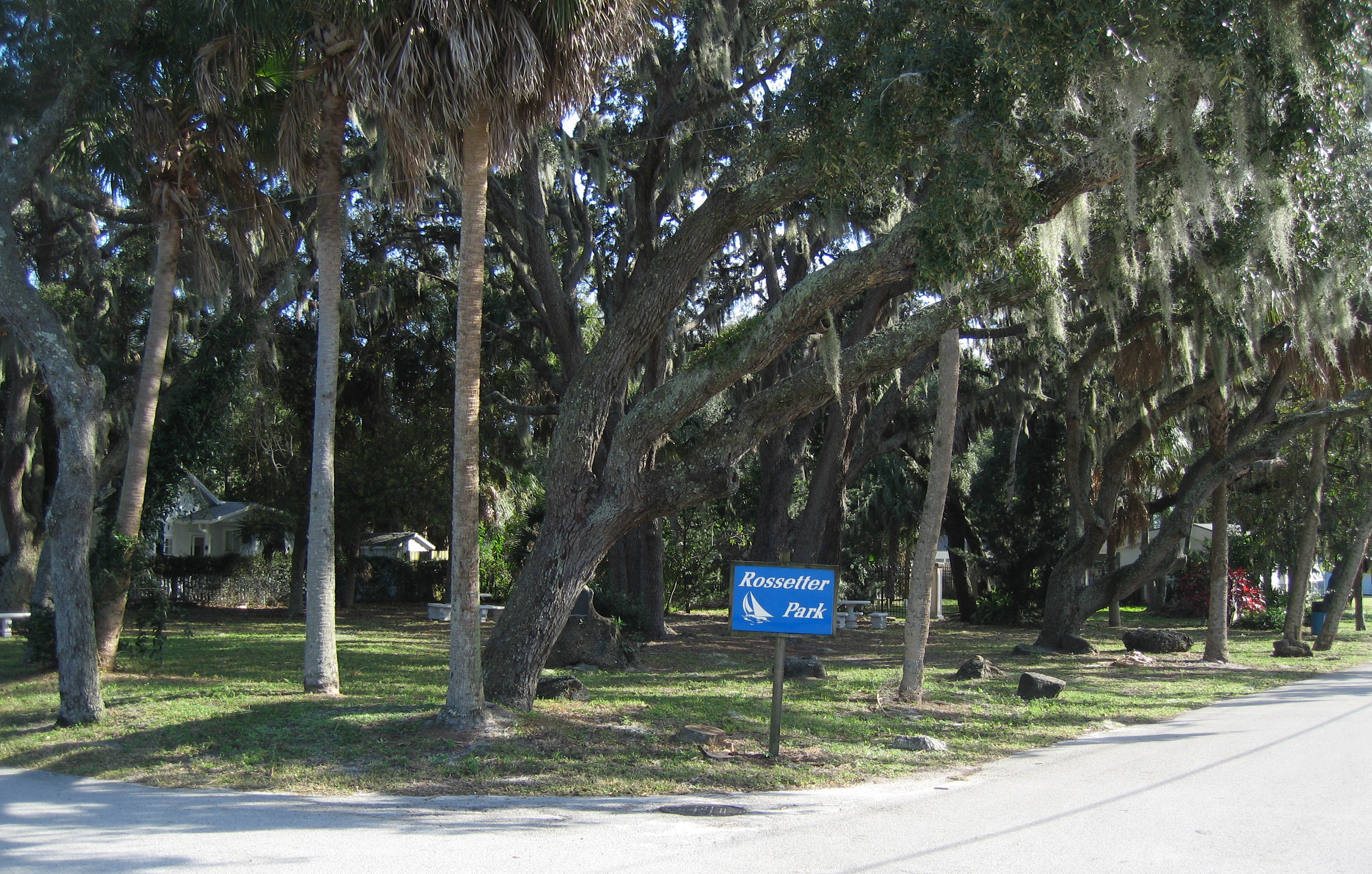 Rossetter Park on the east side of Highland Avenue between Oak Street and Shady Lane, Eau Gallie, Florida. This photograph shows the northwest corner of the park at the intersection of Highland Avenue and Oak Street with several live oaks in view.